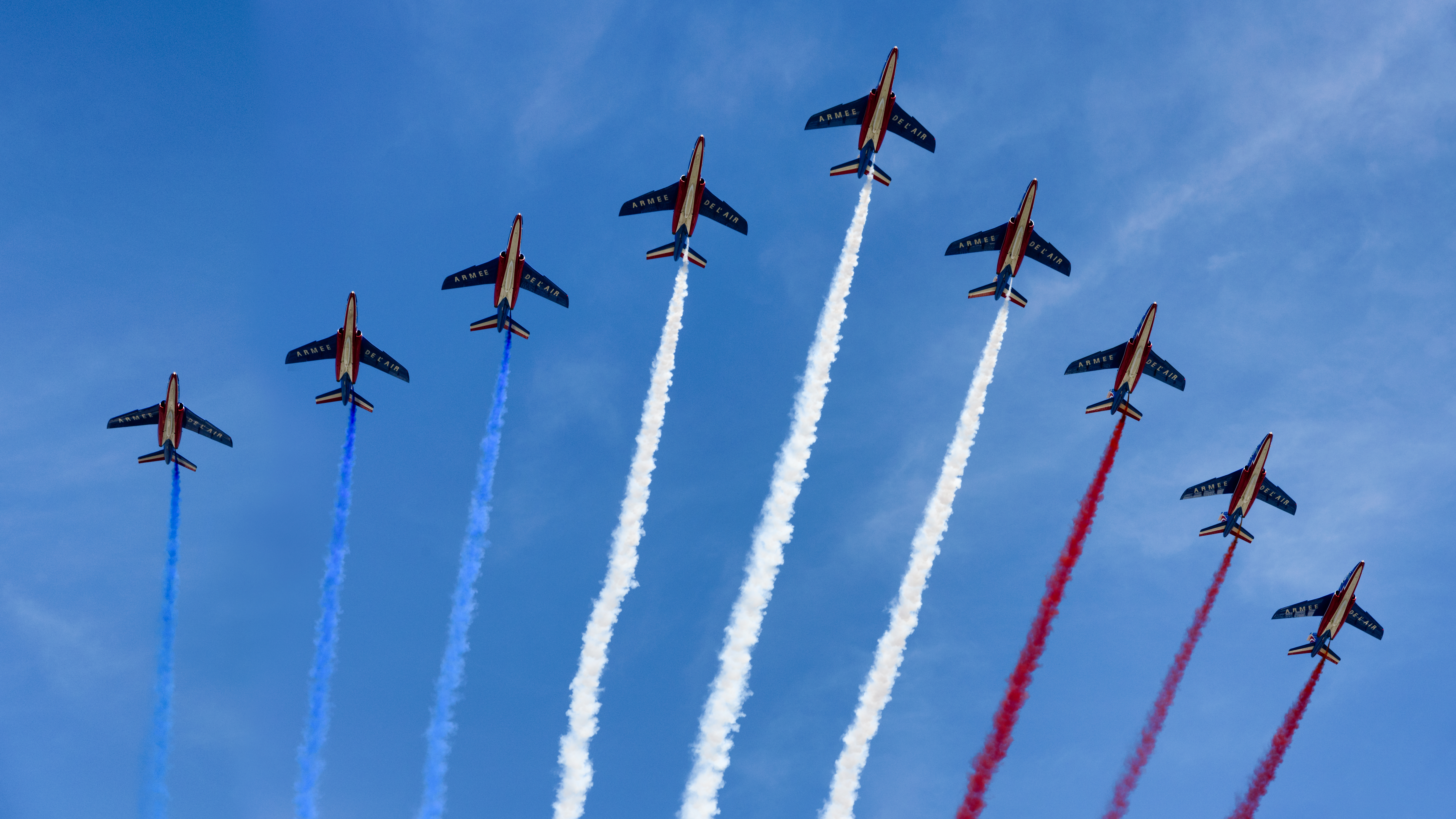 Nine Alpha Jets from the French Air Force fly over the Champs-Elysées, releasing trails of blue, white and red smoke, colours of the French national flag.